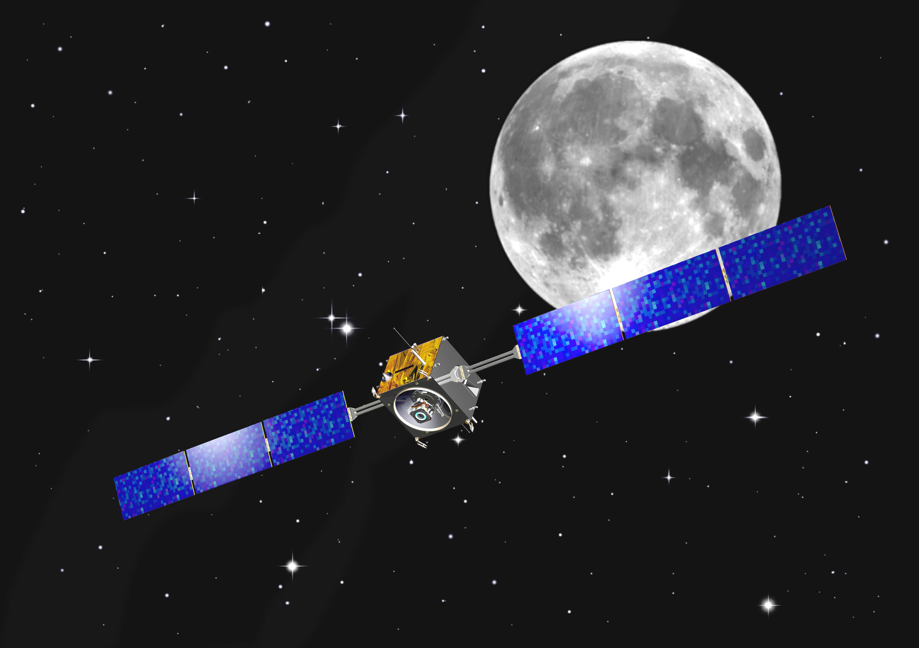 The European Space Agency's Science Programme encompasses, in addition to the ambitious 'Cornerstone' and medium-sized missions, recently dubbed 'flexi-missions', small relatively low-cost missions. These have been given the generic name SMART - 'Small Missions for Advanced Research in Technology'. Their purpose is to test new technologies that will eventually be used on bigger projects. SMART-1 is the first in this programme. Its primary objective is to flight test Solar Electric Primary Propulsion as the key technology for future Cornerstones in a mission representative of a deep-space one. ESA's projected BepiColombo mission to explore the planet Mercury could be the first to benefit from SMART-1's demonstration of electric propulsion. Another objective is to test new technologies for spacecraft and instruments.